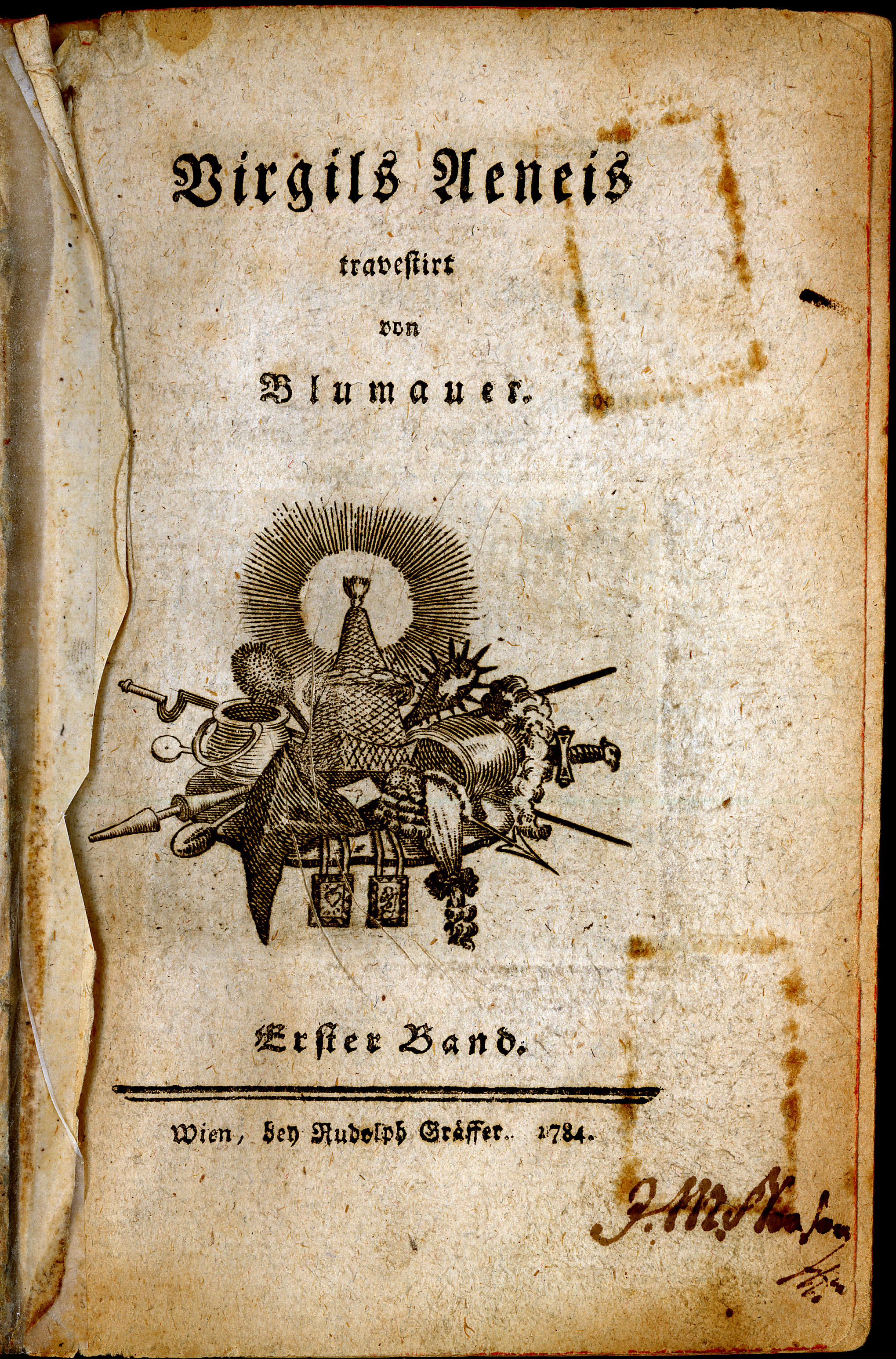 Title page of volume I of Aloys Blumauer’s Virgils Aeneis travestiert (“Travesty of Virgil’s Aeneis”), printed Vienna 1784. First edition. Hint: the dark colour and rough structure of the paper is not due to wrong scanner settings, but due to the original paper.